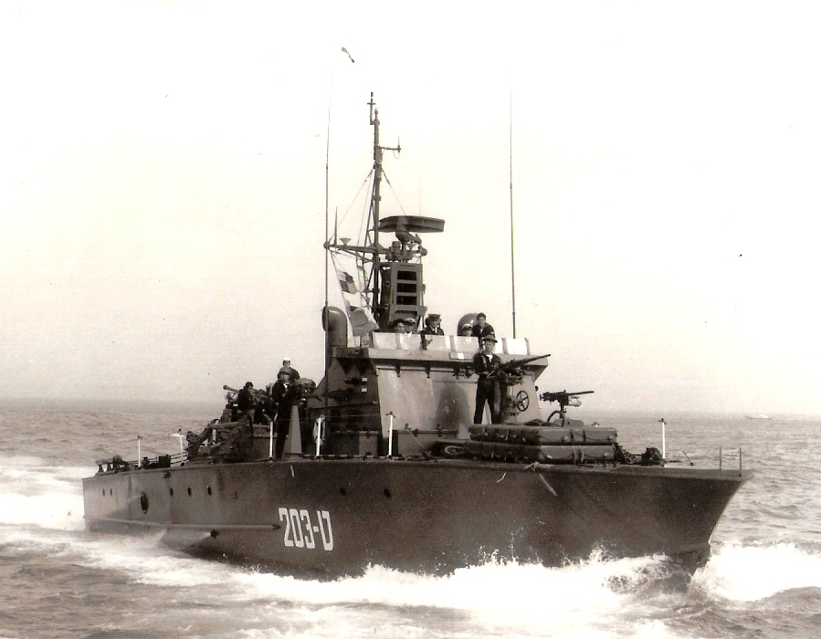 Israeli MTB in the 1960s histing the Active Service Pennant on its starboard antena.